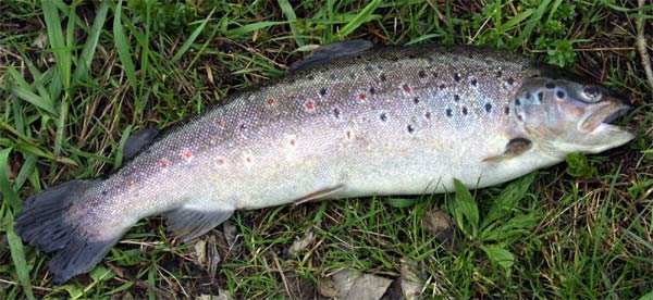 Bachforelle - Salmo trutta fario, subspecies of Salmo trutta